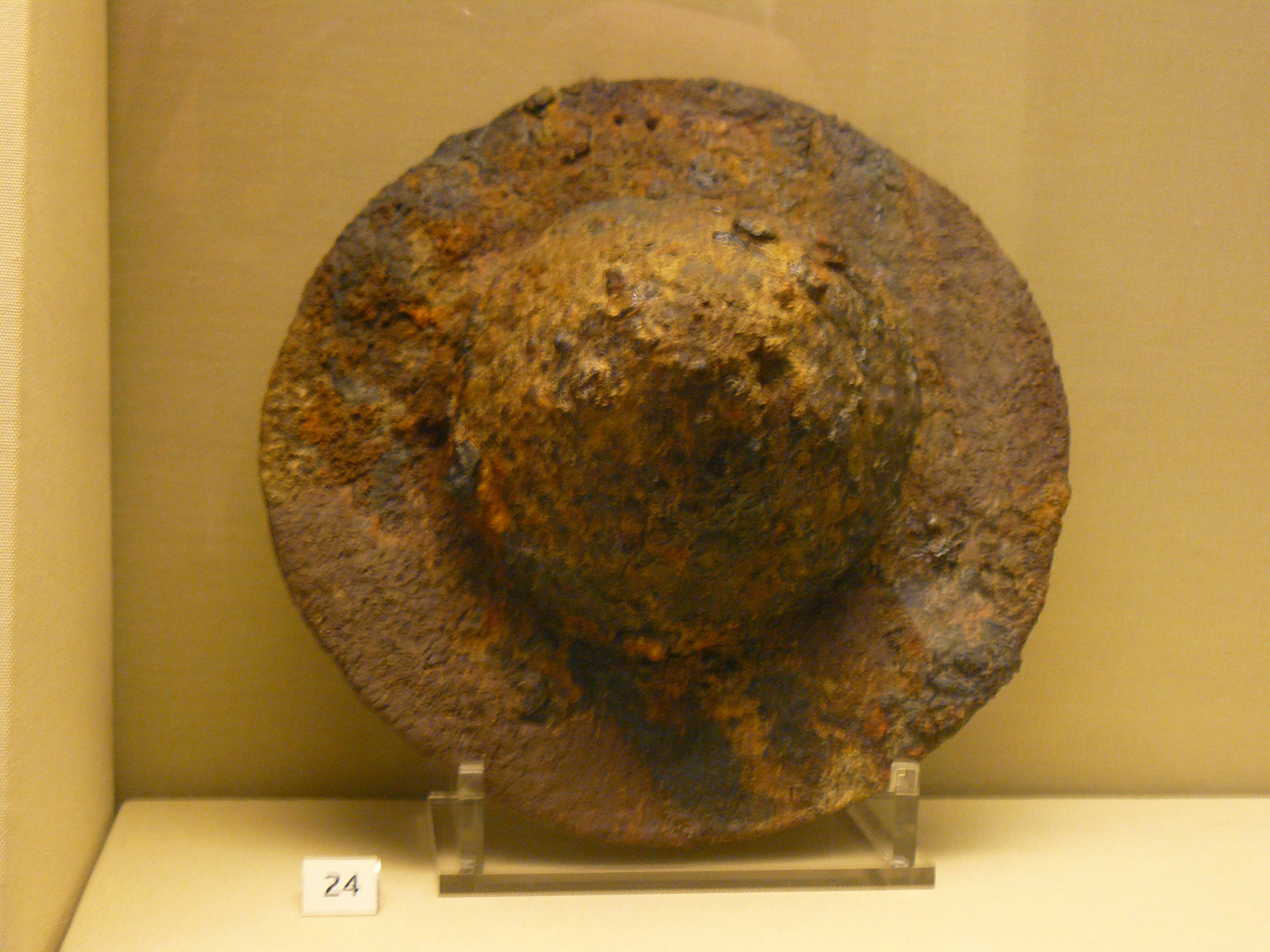 Gothic iron shield boss (4th - 5th century AD) Kerch, Crimea, Ukraine. British Museum, London.